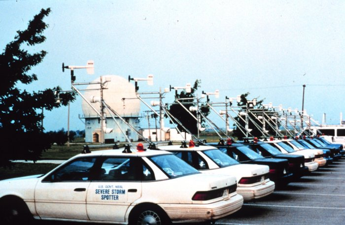 NSSL vehicles on Project Vortex. Vehicles equipped with surface measurement equipment. Moved to wikimedia commons by SriMesh Category:Tornado